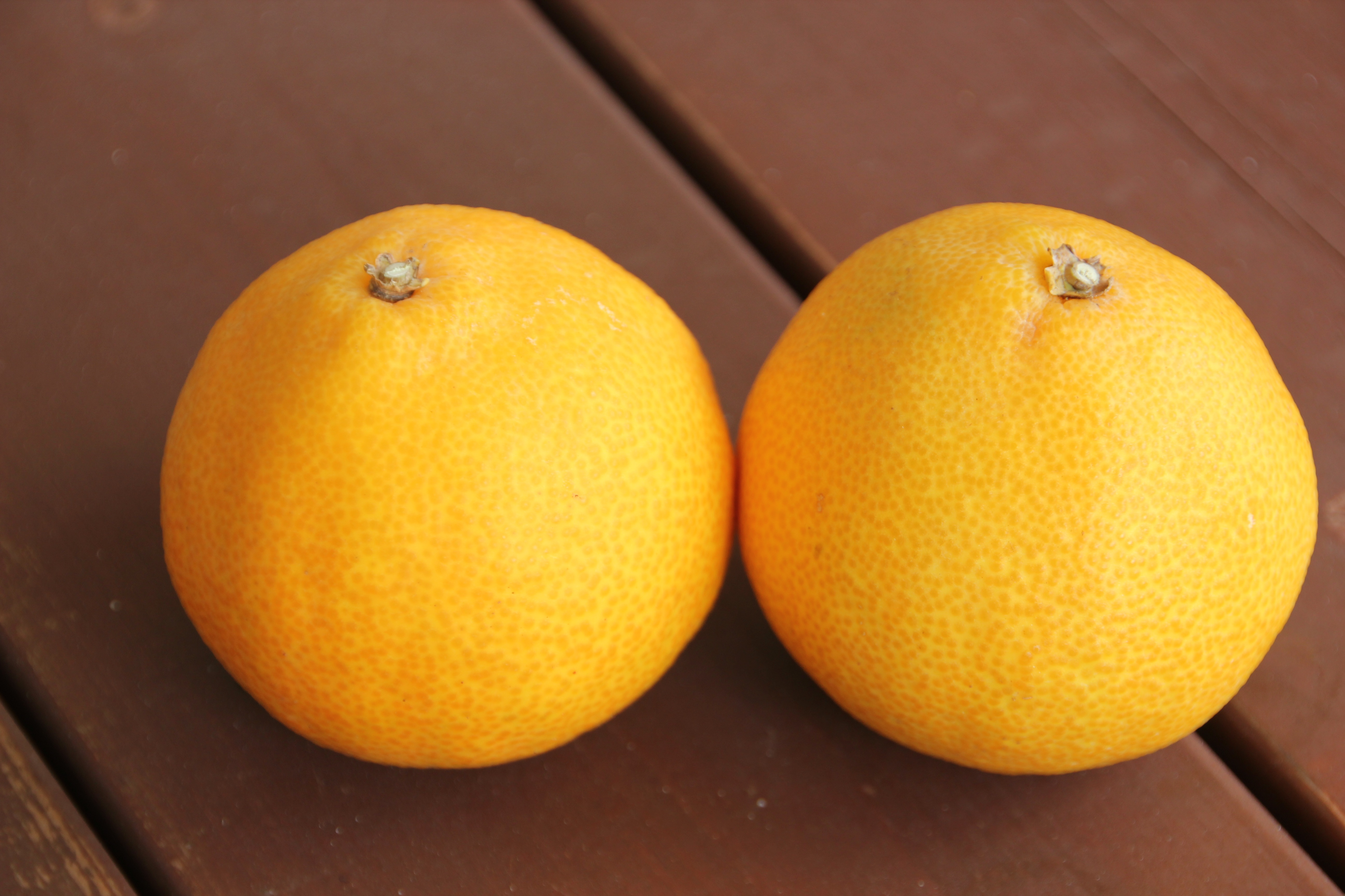 Cheonhyehyang (C. unshiu × C. sinensis)